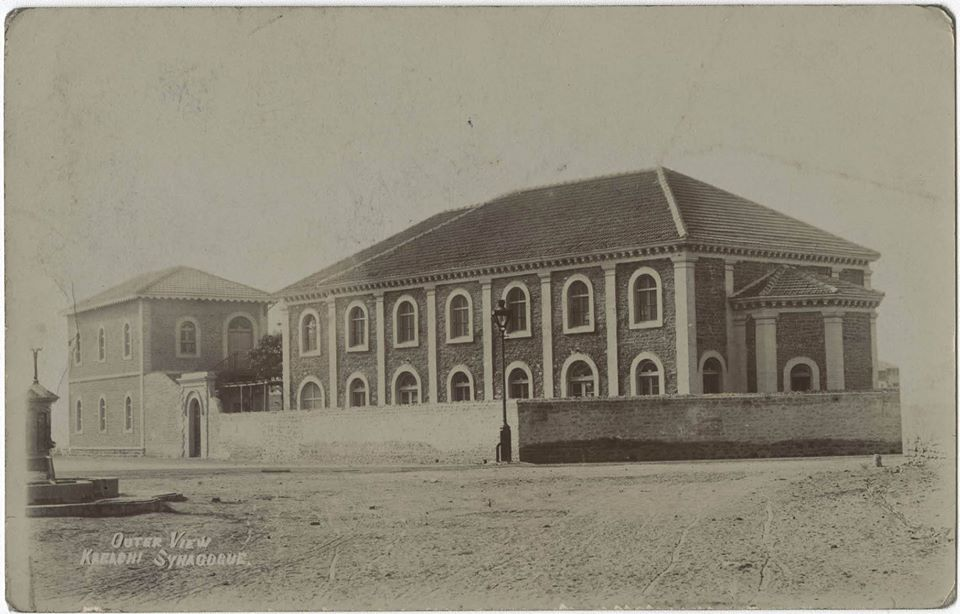 Depicted place: Magain Shalome Synagogue